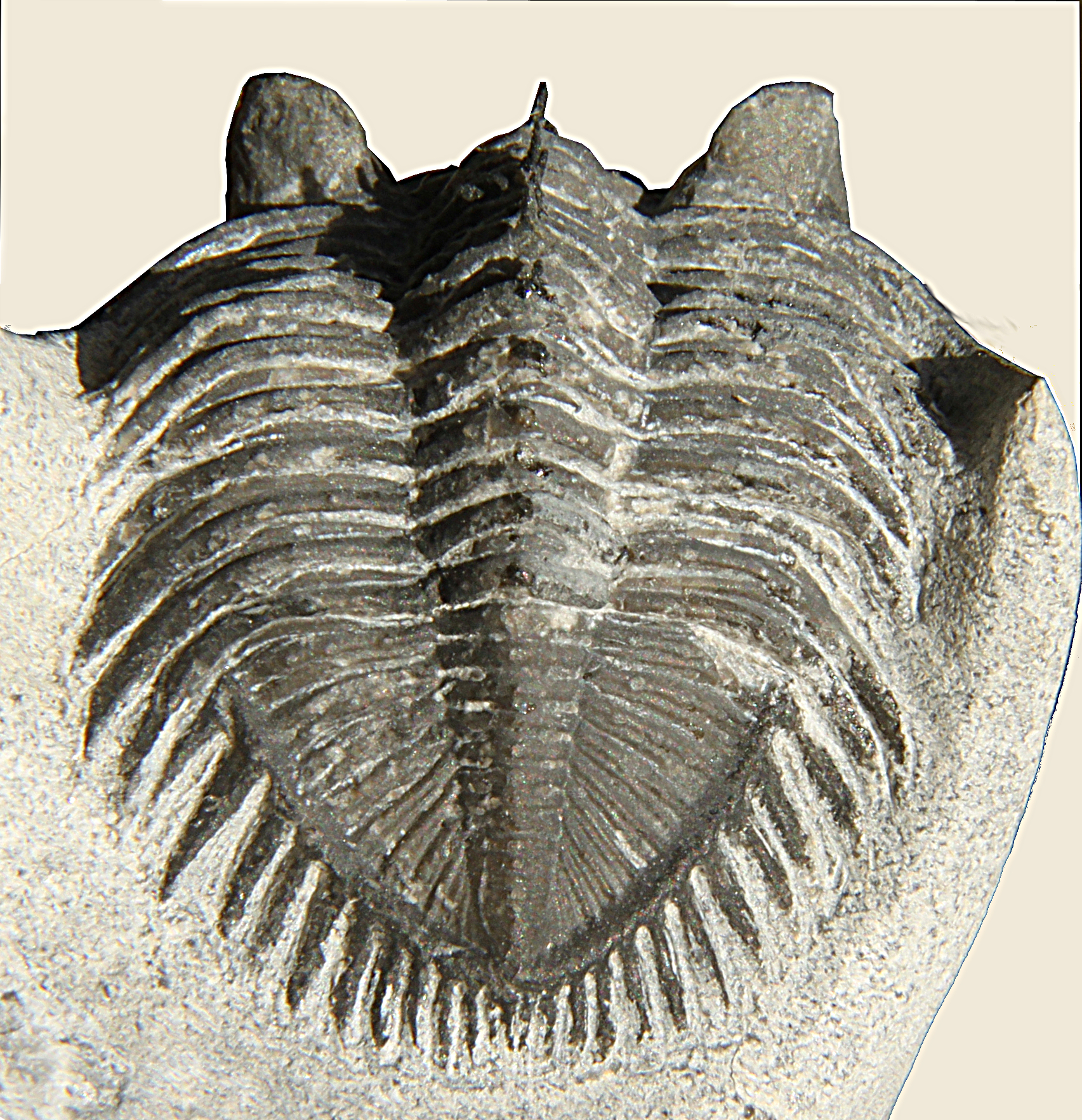 Erbenochile issoumourensis, rear view, collected near Foum Zgid, Morocco, late Emsian, 45mm body length